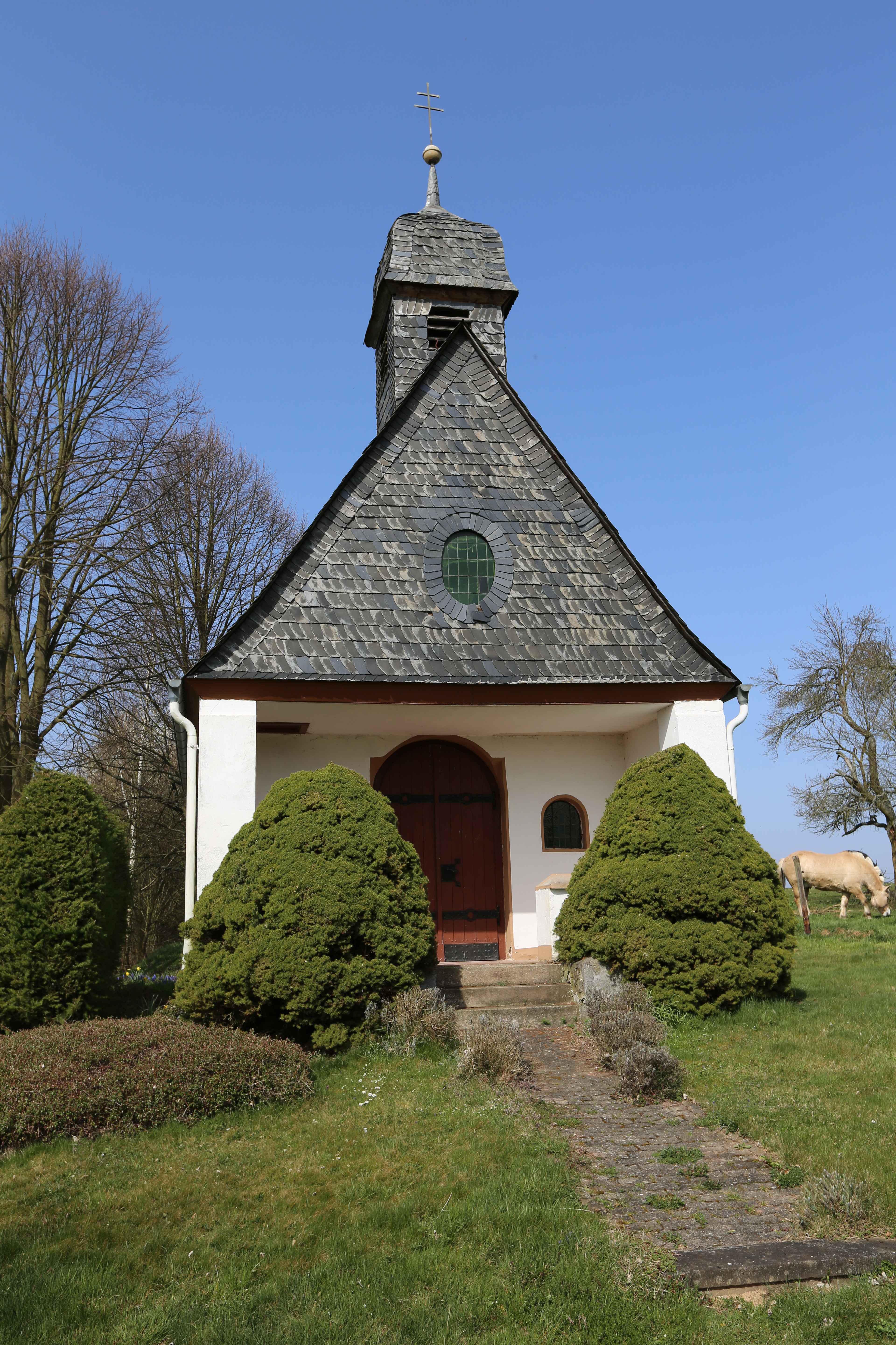 The “Werner – Chapel” in Womrath, Rhineland-Palatinate, Germany